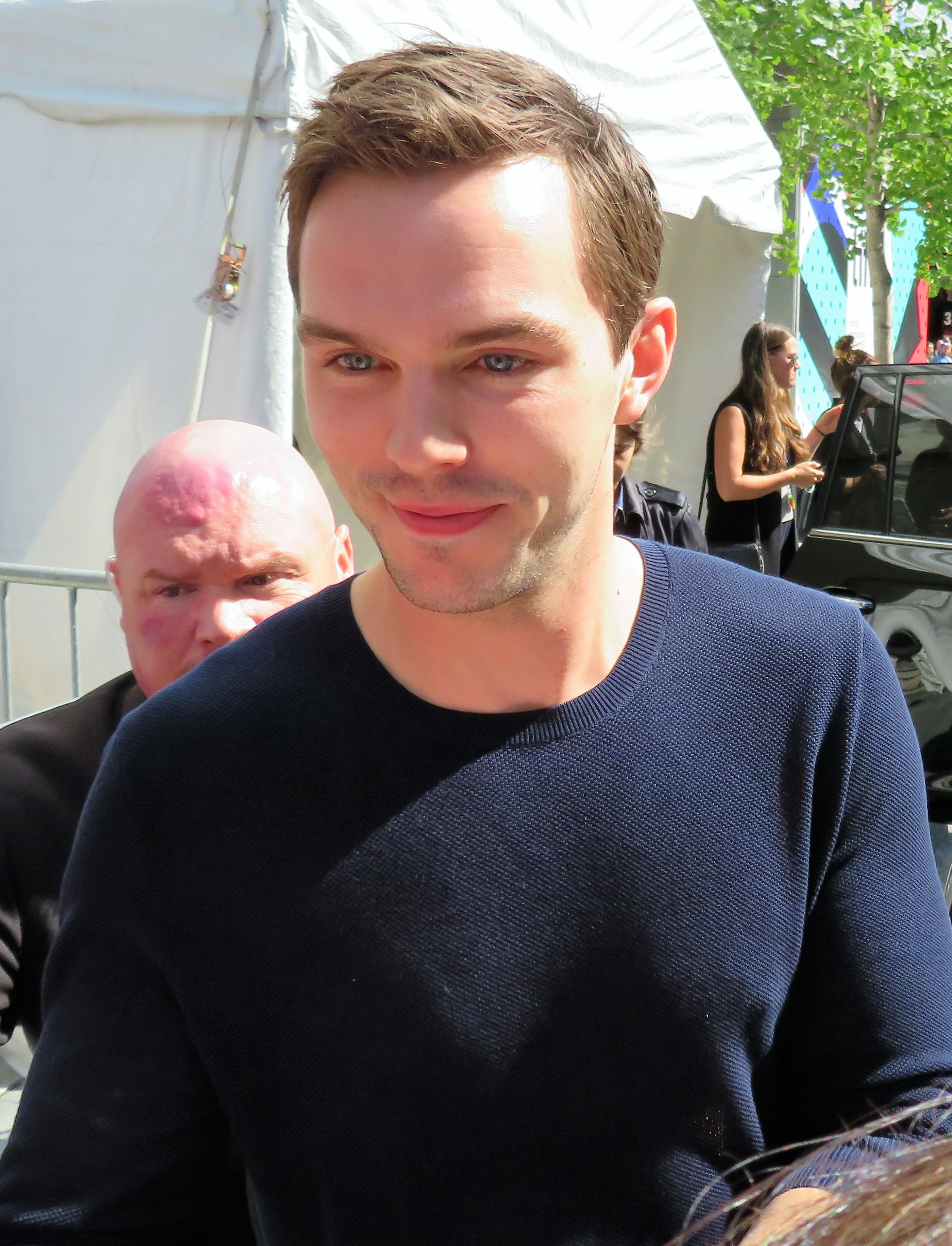 Nicholas Hoult at the press conference of The Current War, 2017 Toronto Film Festival